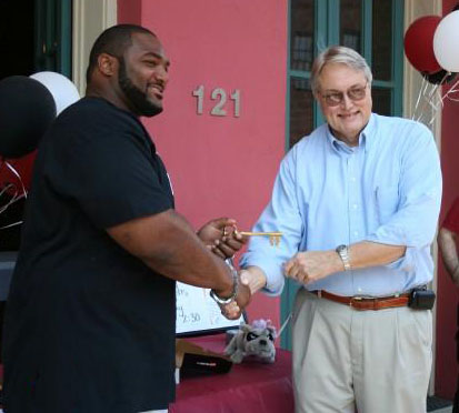 Montrae Holland Recieving key to the city from Jefferson, Texas Mayor, Bob Avery on 6/21/08